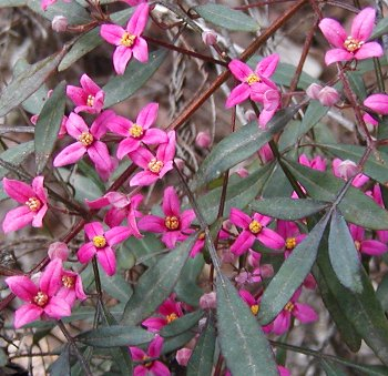 Boronia fraseri, Glenbrook Native Plant reserve Photo Cas Liber Sept 2004